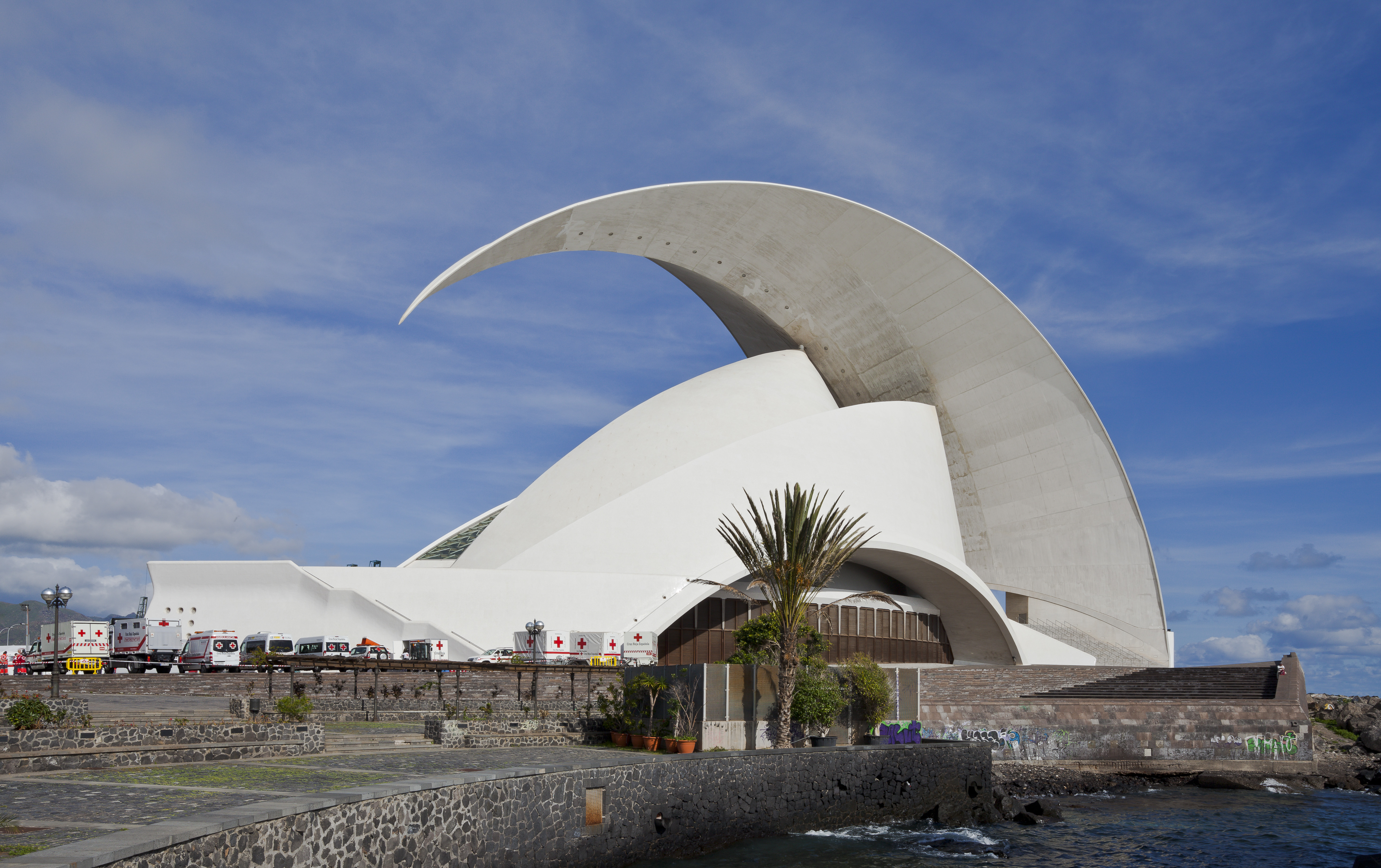 Auditorium of Tenerife, Santa Cruz de Tenerife, Spain